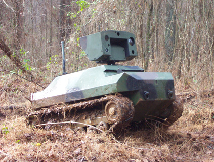 Gladiator Tactical Unmanned Ground Vehicle at Redstone Arsenal.